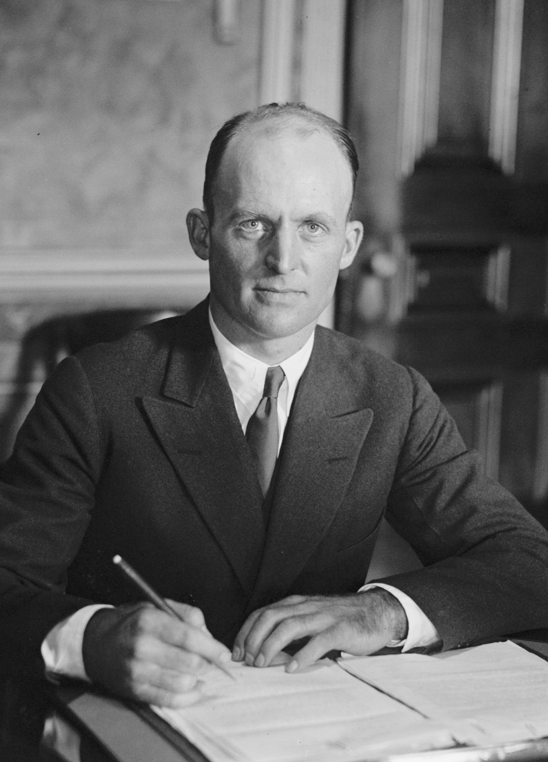 Colonel Hanford MacNider, Asst. Sec. of War